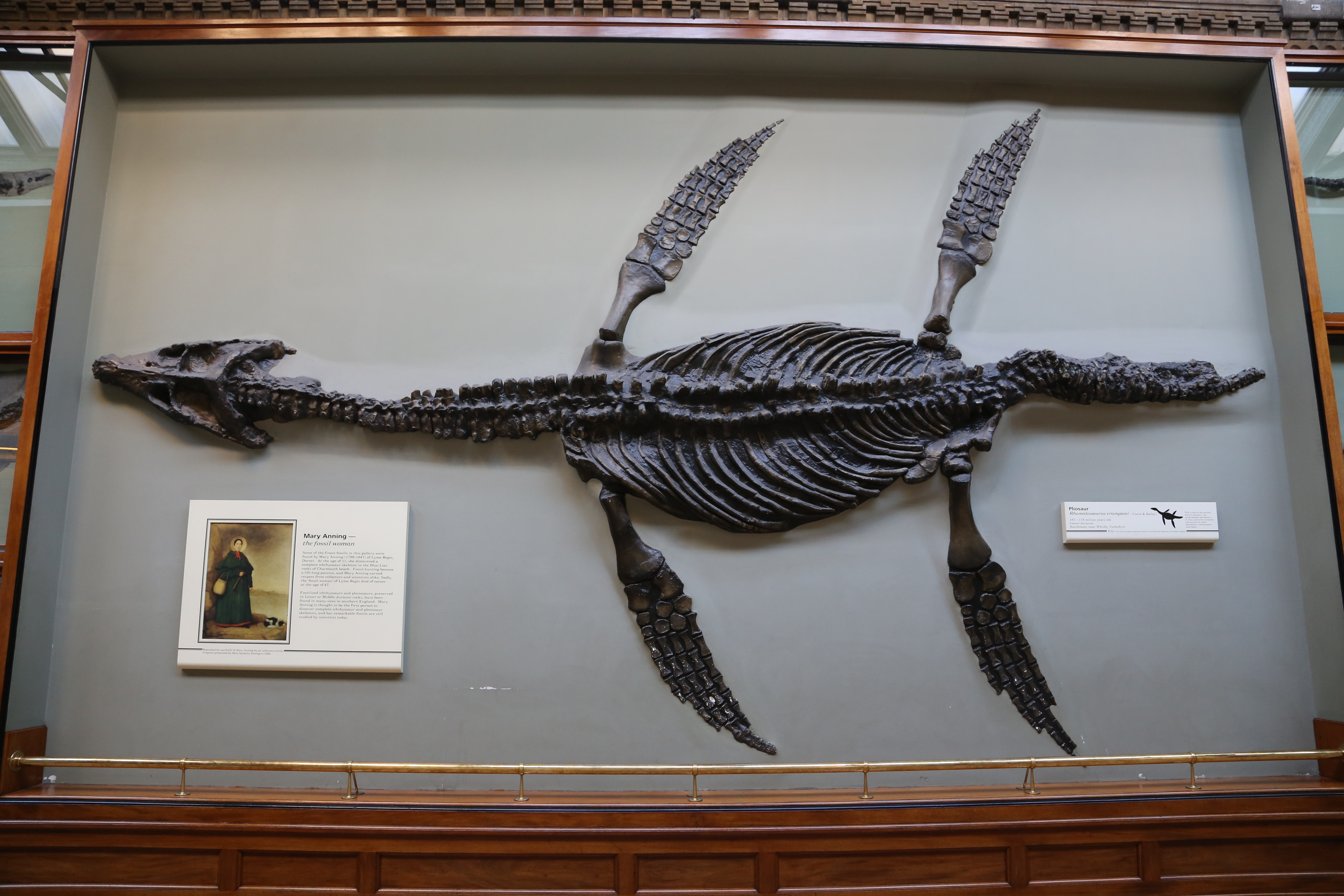 Pliosaur, Rhomaleosaurus cramptoni (cast), Natural History Museum, London